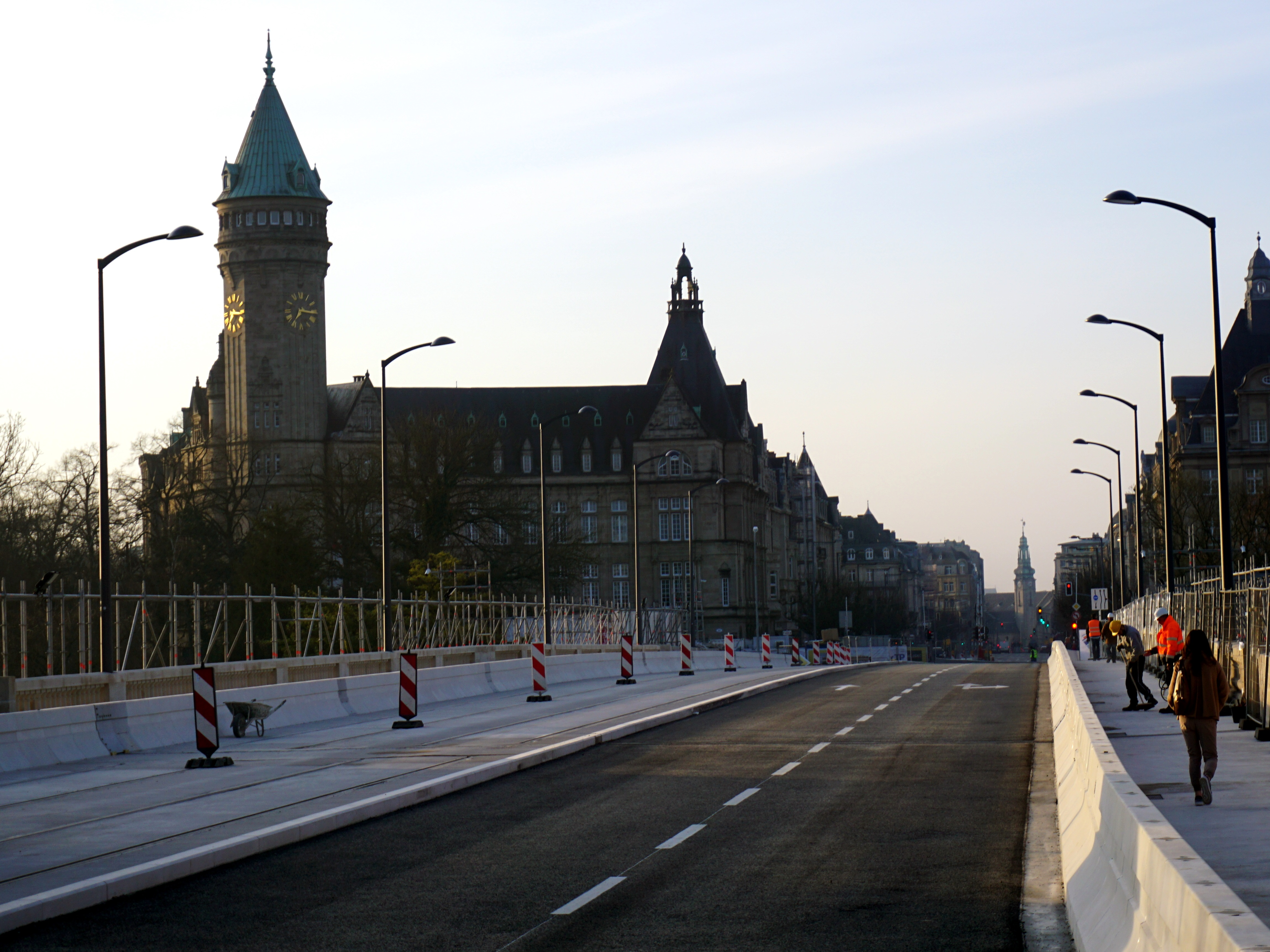 After renovation (2014-2017), the Adolphe Bridge has been reopened.